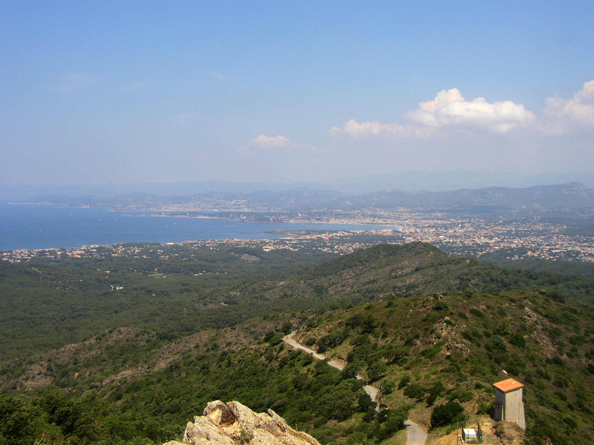 Sight on one of the coasts of the French department of Var, seen from the High Six-Fours-les-Plages (Notre-Dame-du-Mai).